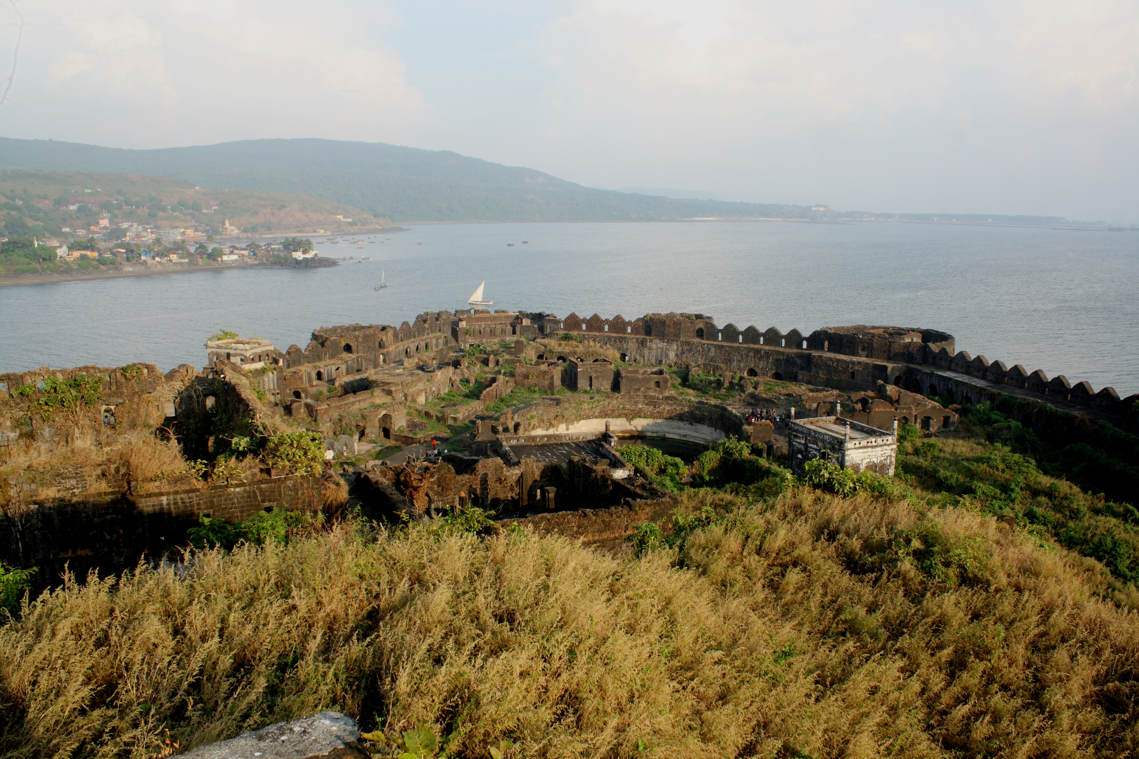 Murud-Janjira is a fort situated on an island just off the coastal village of Murud, in the Raigad district of Maharashtra. Photo by Dr. Raju Kasambe